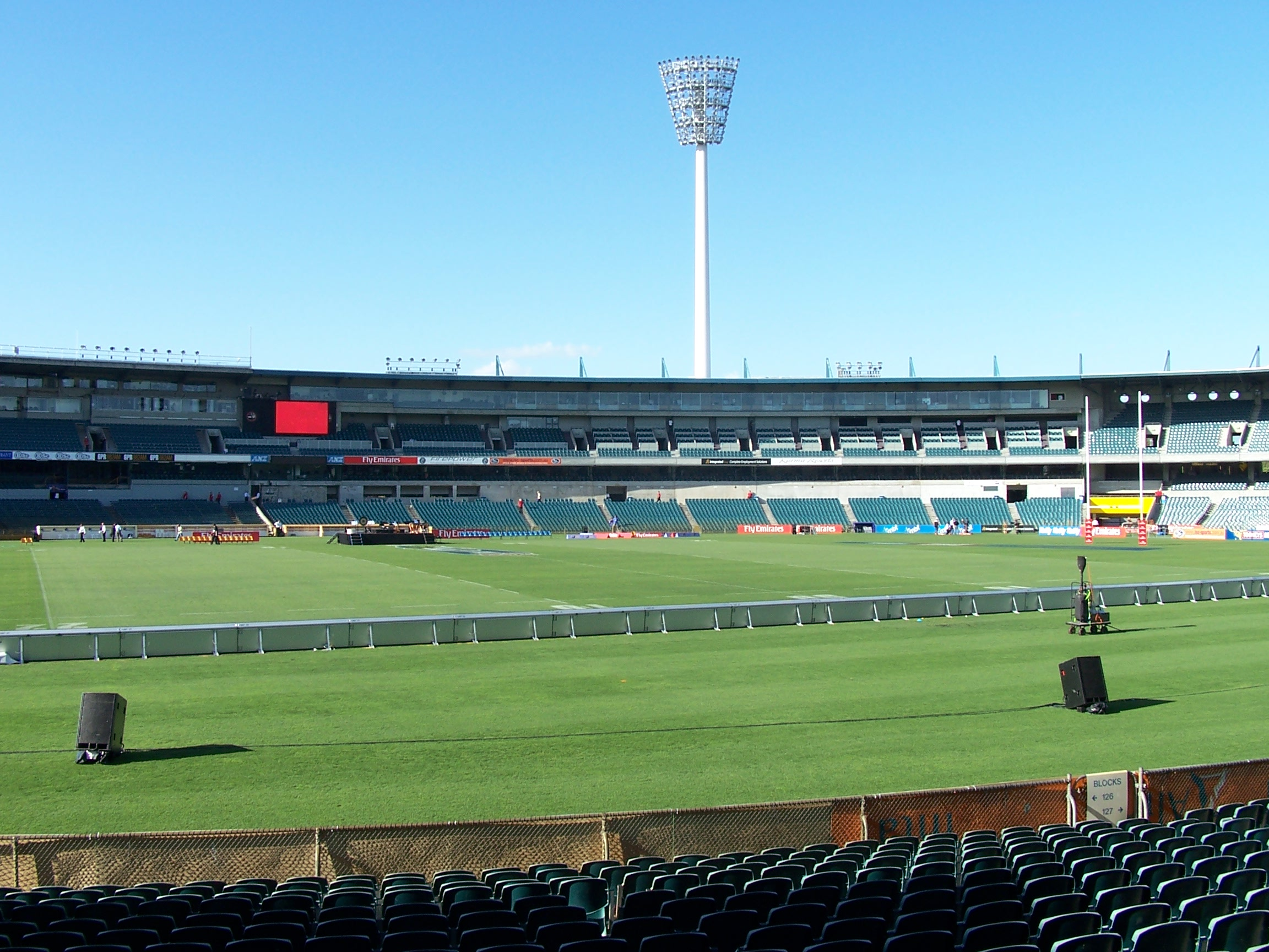 Subiaco Oval 2 hours before a Western Force Super 14 match.